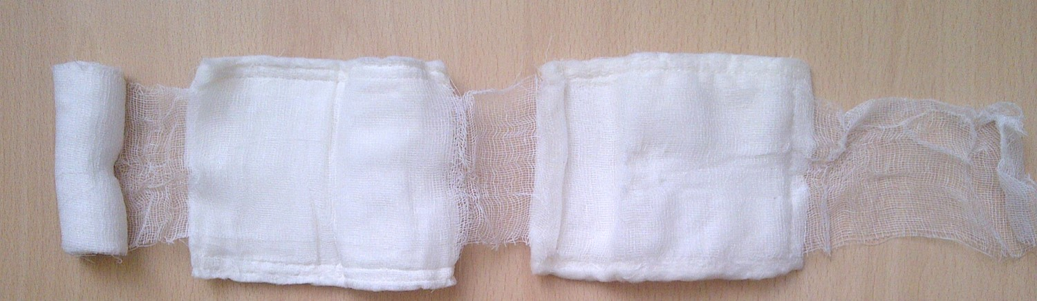 Individual dressing of A type - product